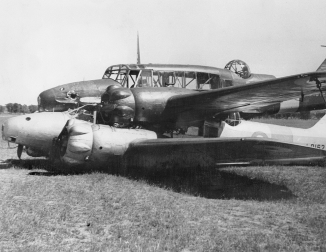 Two Avro Ansons (L9162 and N4876) "piggyback" in a paddock near Brocklesby after a mid-air collision resulted in the two aircraft being locked together and landing safely in a paddock.